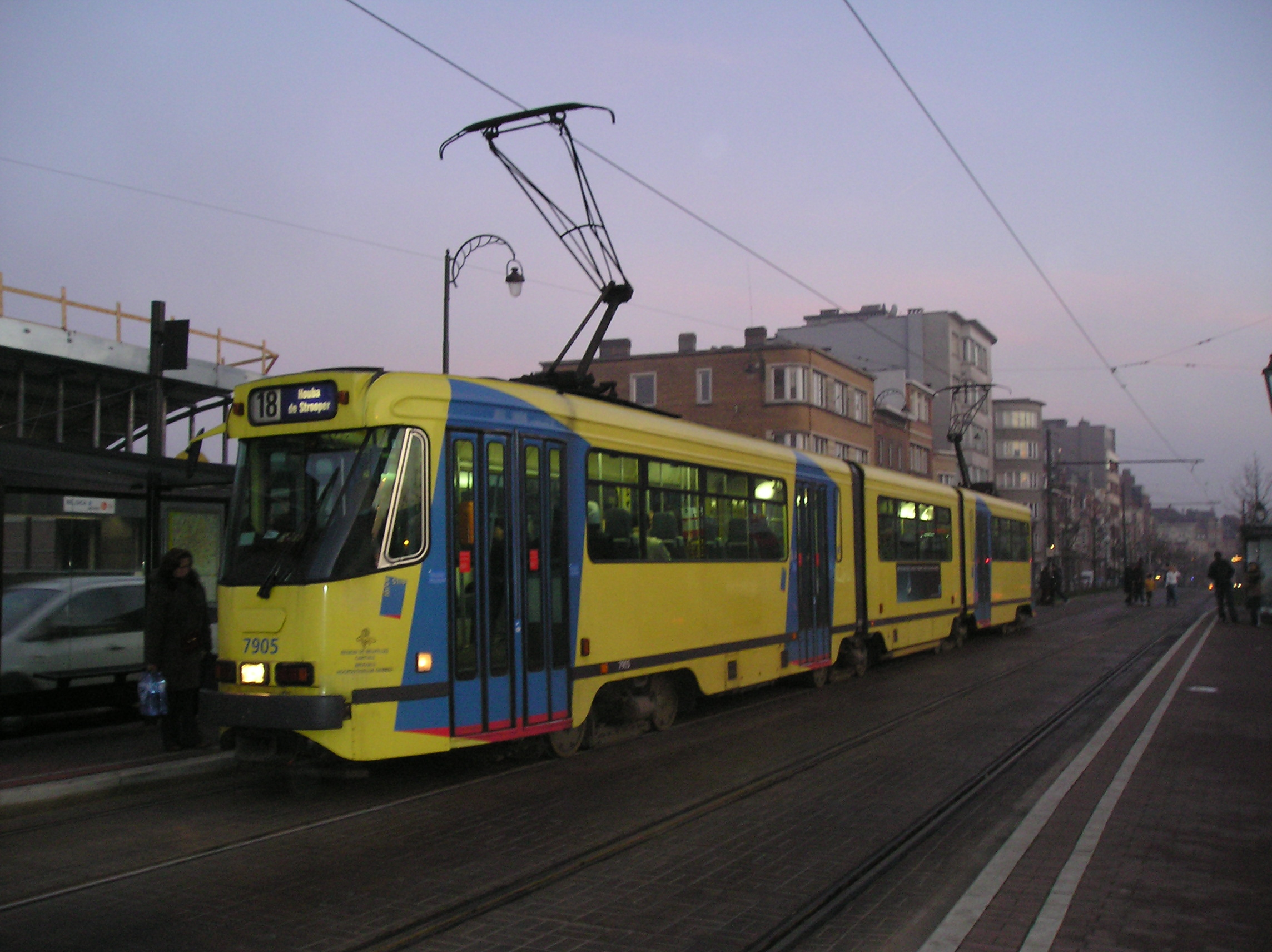 Triple articulated Brussels city tram, line 18, tram stop Belgica. Yellow-blue color scheme is the official color scheme of the Brussels public transport authority (MIVB (Duthch), STIB (French)).